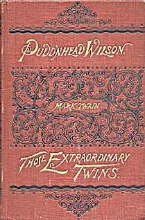 First edition front cover, Mark Twain: Pudd'nhead Wilson and Those Extraordinary Twins, 1894, Hartford, Conn. American Publishing Company